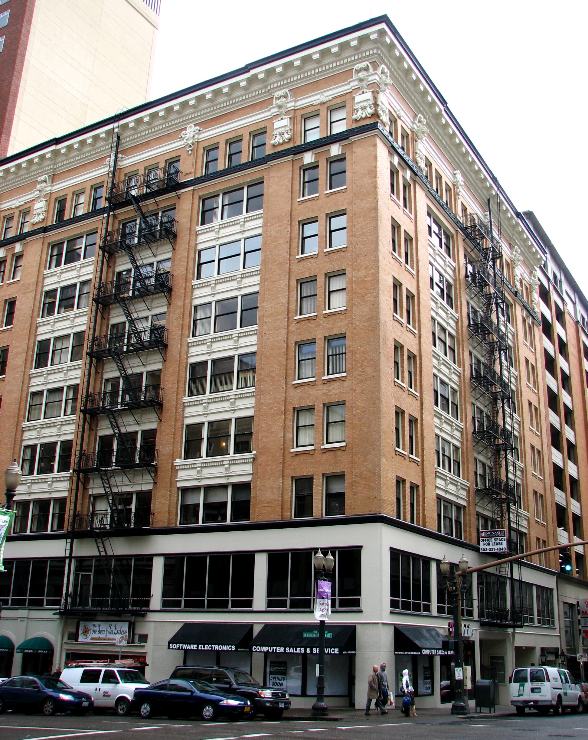 The historic Electric Building (built 1910), located at 621 Southwest Alder Street in Portland, Oregon, United States, is listed on the US National Register of Historic Places (NRHP). NRHP reference number 89000059